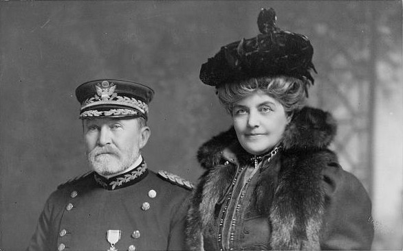 Frederick Dent Grant (1850 – 1912), a soldier and United States minister to Austria, and his wife Ida Marie Honoré